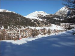 my photography chirstopher slade